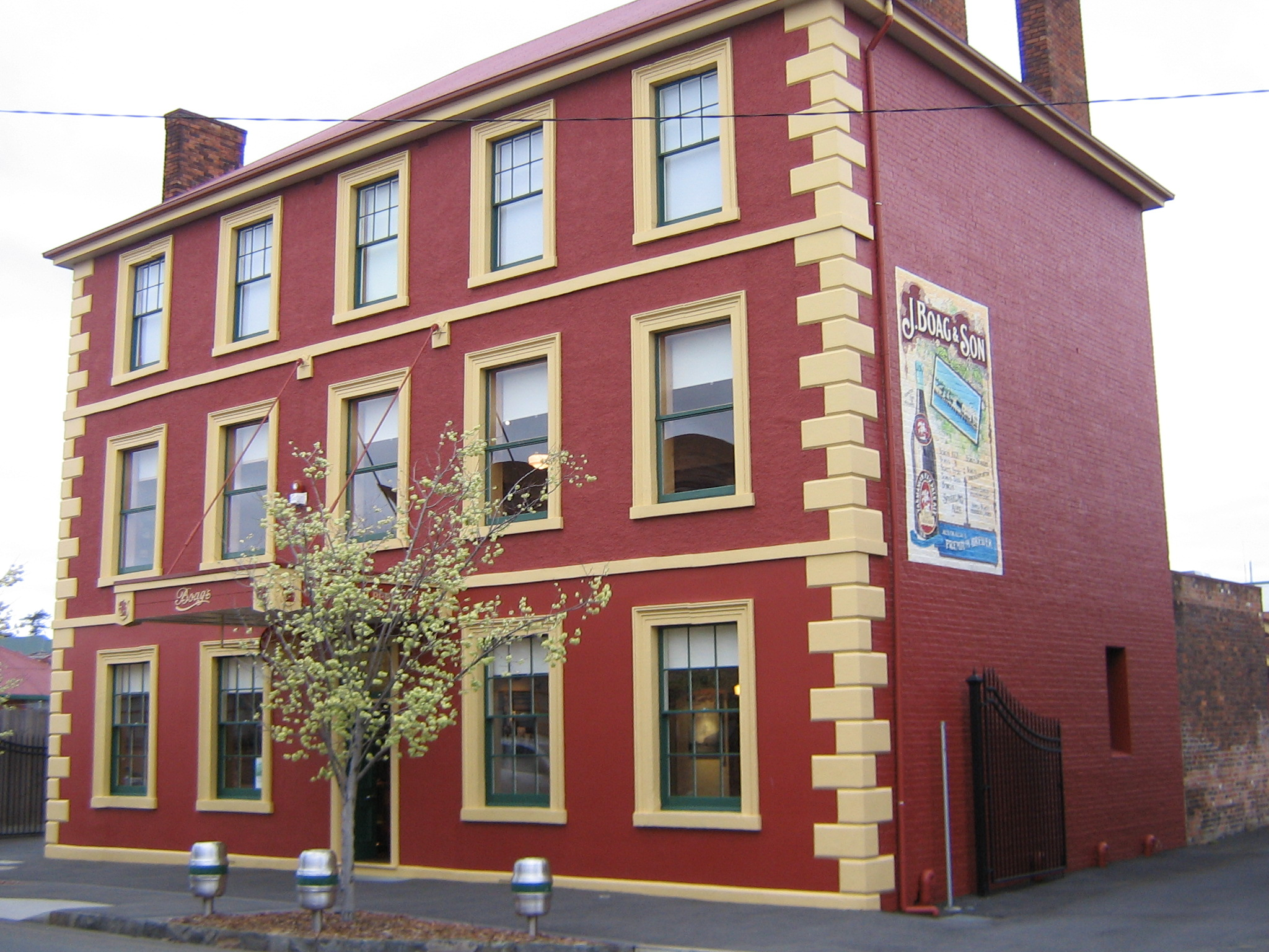 Visitor centre at Boag's Brewery in Launceston, Tasmania